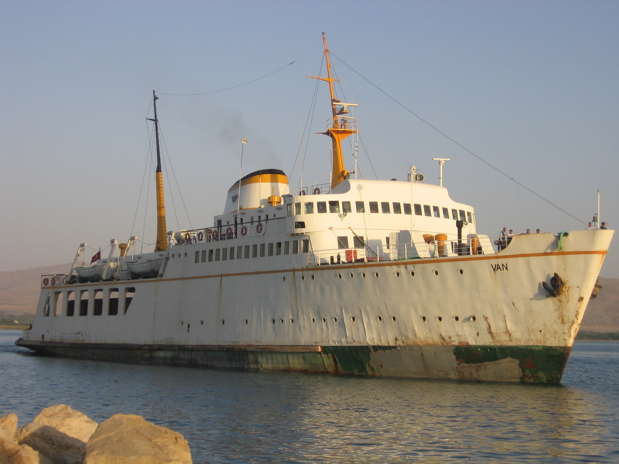 Train ferry "Van" aproaching Van harbour, Lake Van. photo by Wikimol, 2005